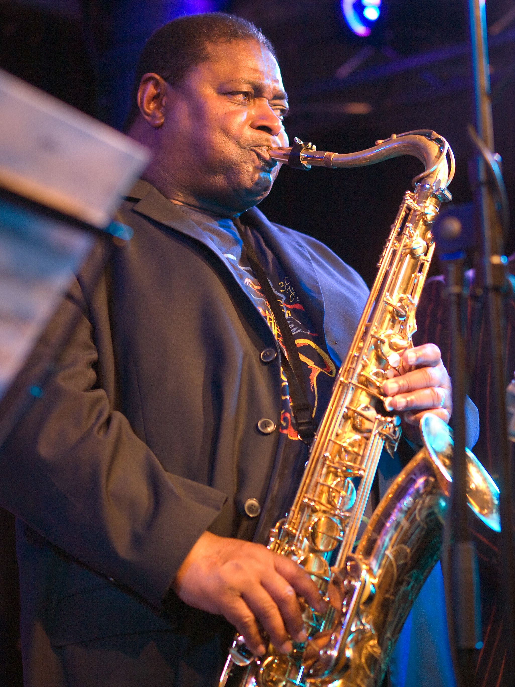 Pee Wee Ellis, Jazz saxophonist + Jazz/Funk composer; Picture taken in Jazz Club Unterfahrt, Munich/Bavaria